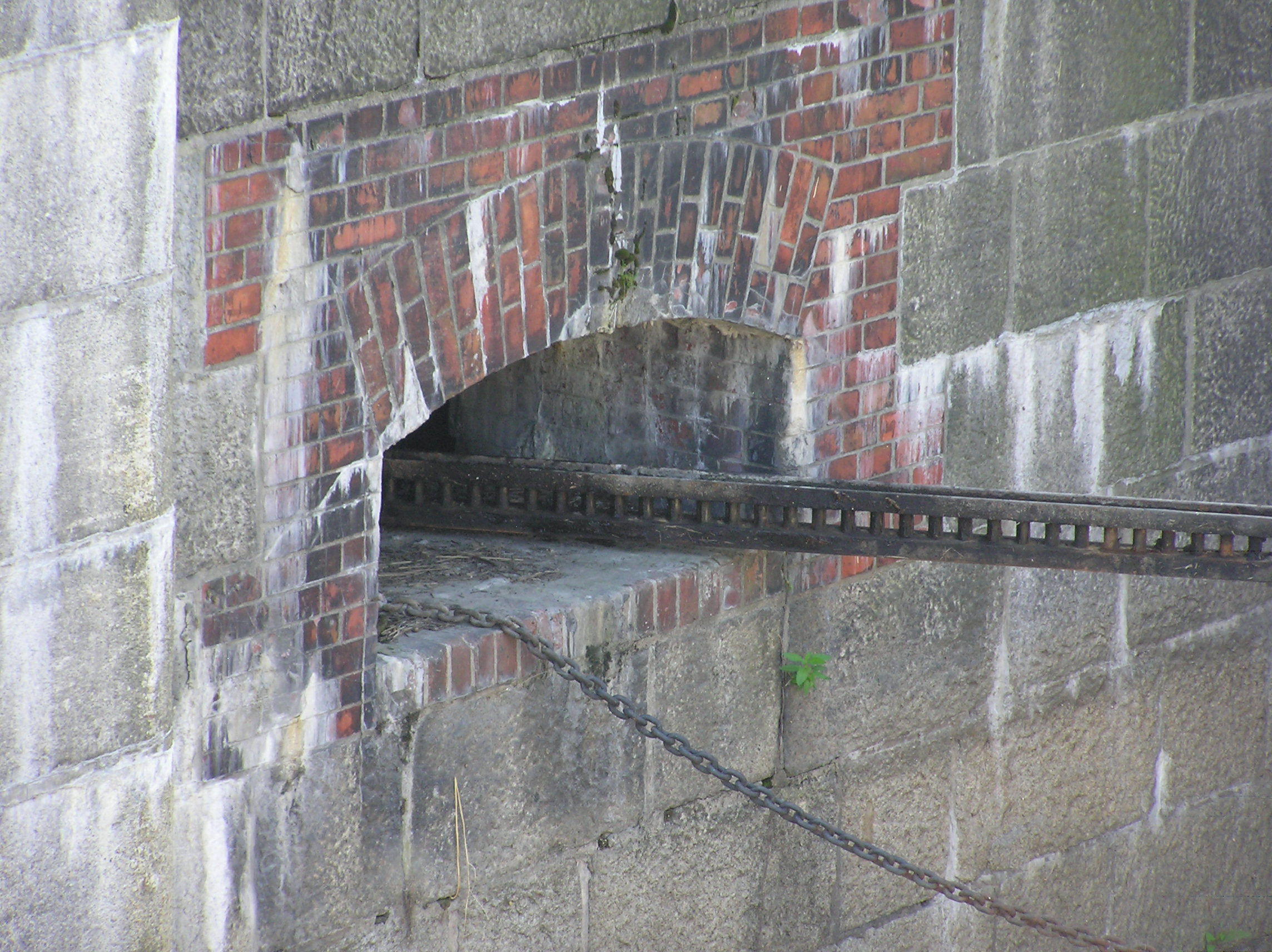 Wrocław, Oder River, trail side Oder waterway (european waterway E-30), Miejski Canal, Miejska Lock